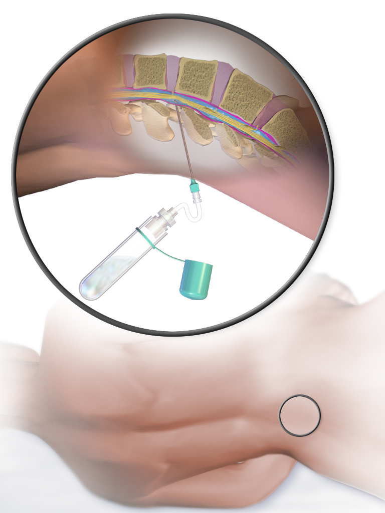 Spinal Tap. See a full animation of this medical topic.